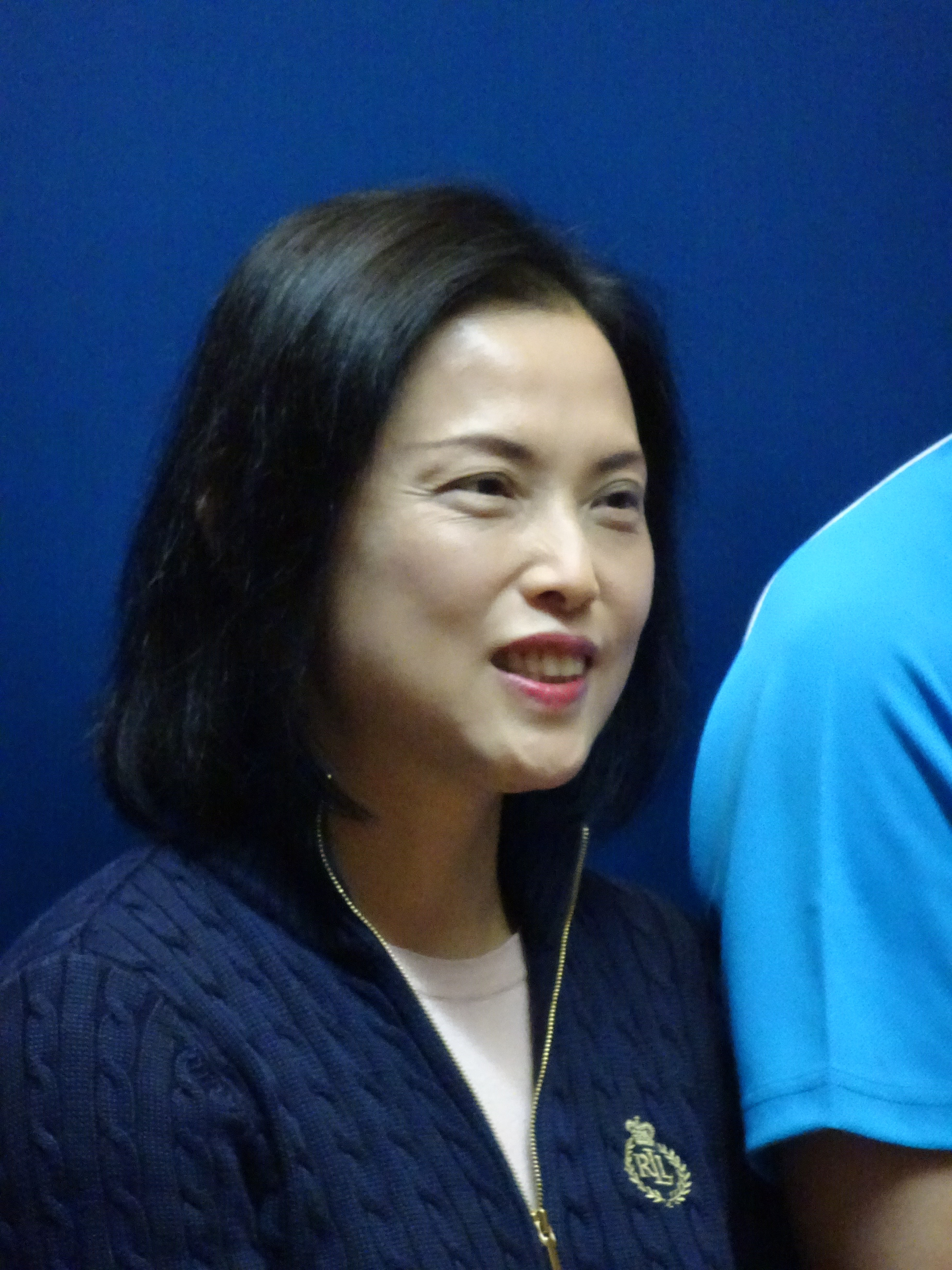 FUNG CHING Suk-yee (14 Oct 2017, "The Golden Era of Hong Kong Football" Exhibition, Hong Kong Cultural Centre)